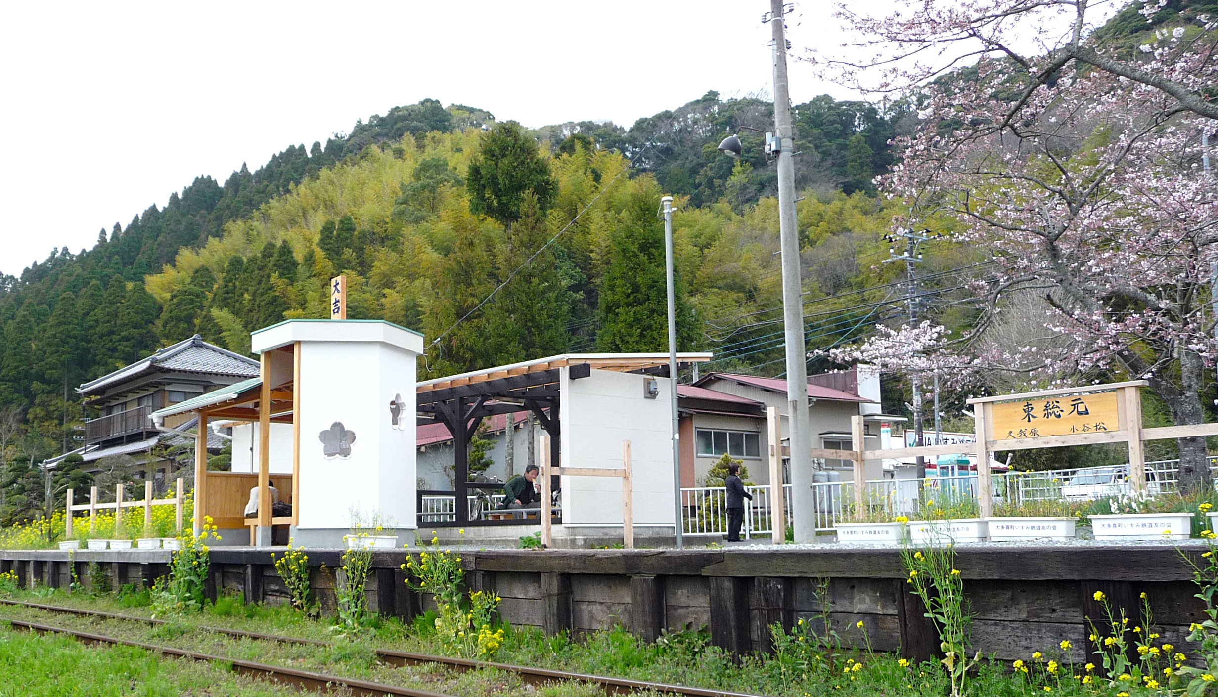 Higashi-Fusamoto Station platform.